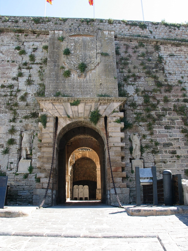 Gate and access to the old town (Dalt Vila) of Ibiza city (Portal de ses Taules)